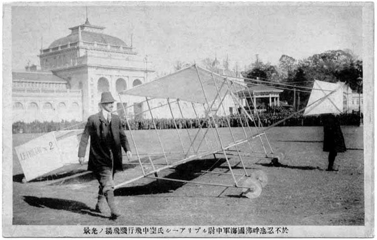 Japanese postcard of a glider created and flown by Yves Le Prieur (1885-1963), who is also shown. Aibara Shirō and Tanakadate Aikitsu also participated in its creation.